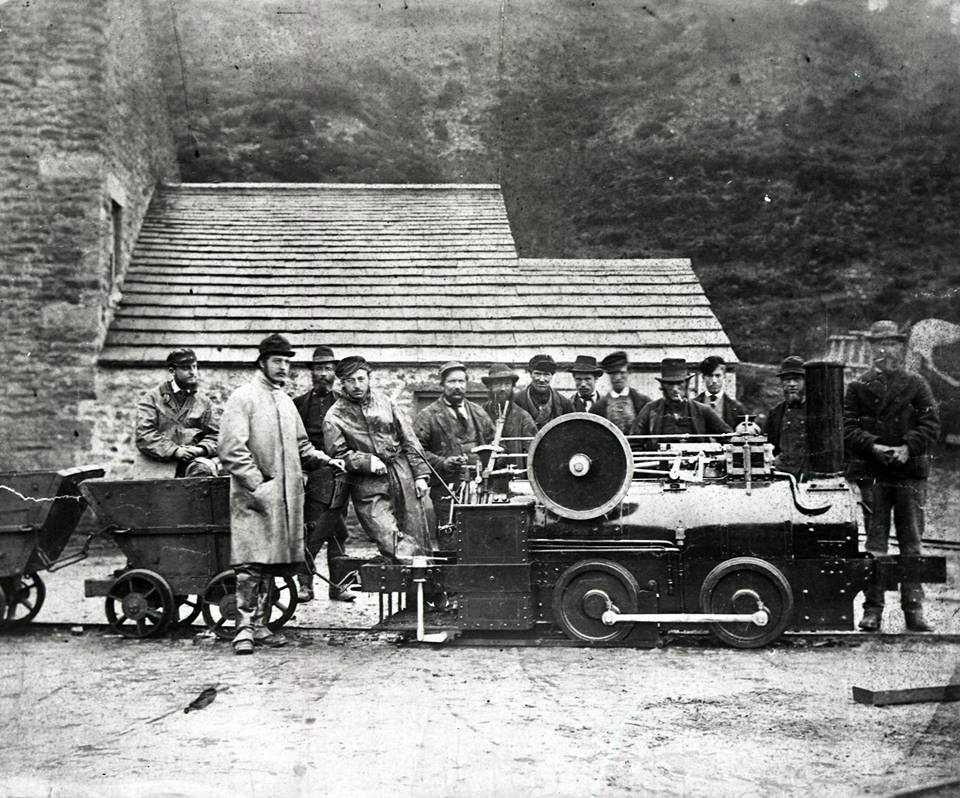 On the trail of Samson… Lewin locomotive used at the Cornish Hush Mine, Howden Burn (retouched)